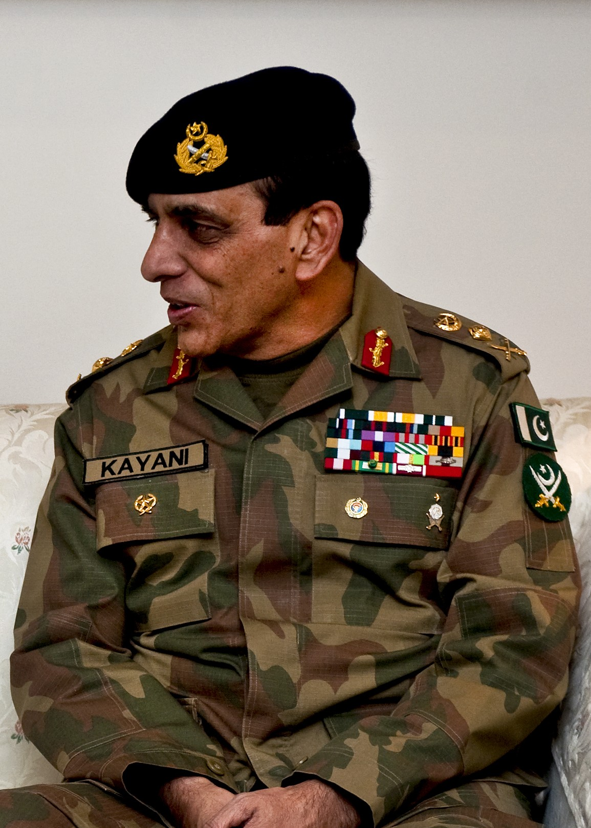 Pakistani Chief of Army Staff Gen. Ashfaq Parvez Kayani in Islamabad, Pakistan.